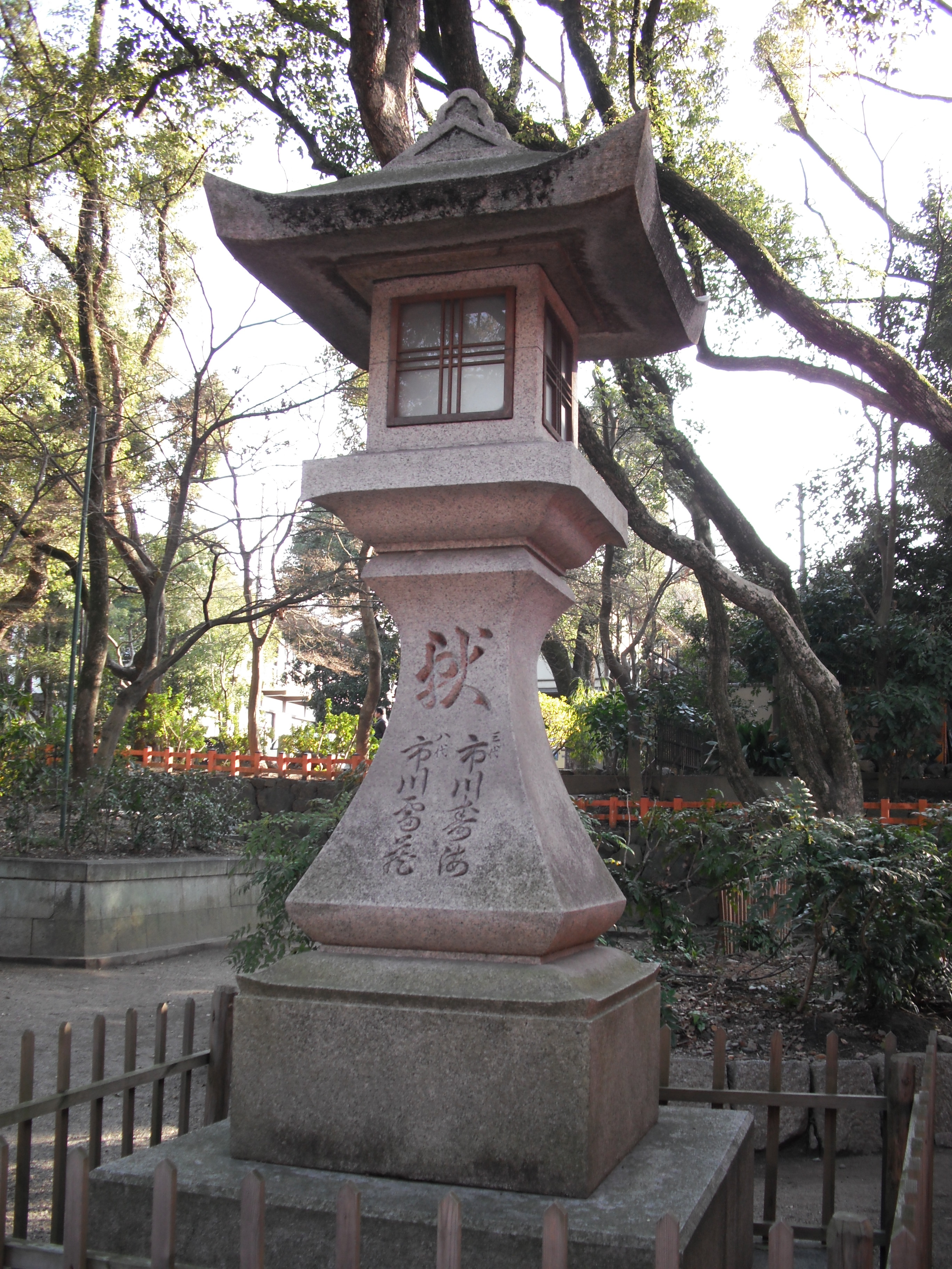 Lantern in Yasaka Shrine(Kyoto,Kyoro Prefecture,Japan)